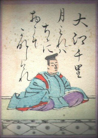 A portrait of Ō'e no Chisato; illustration from an uta-garuta playing card for Hyakunin Isshu, created in the Edo period.